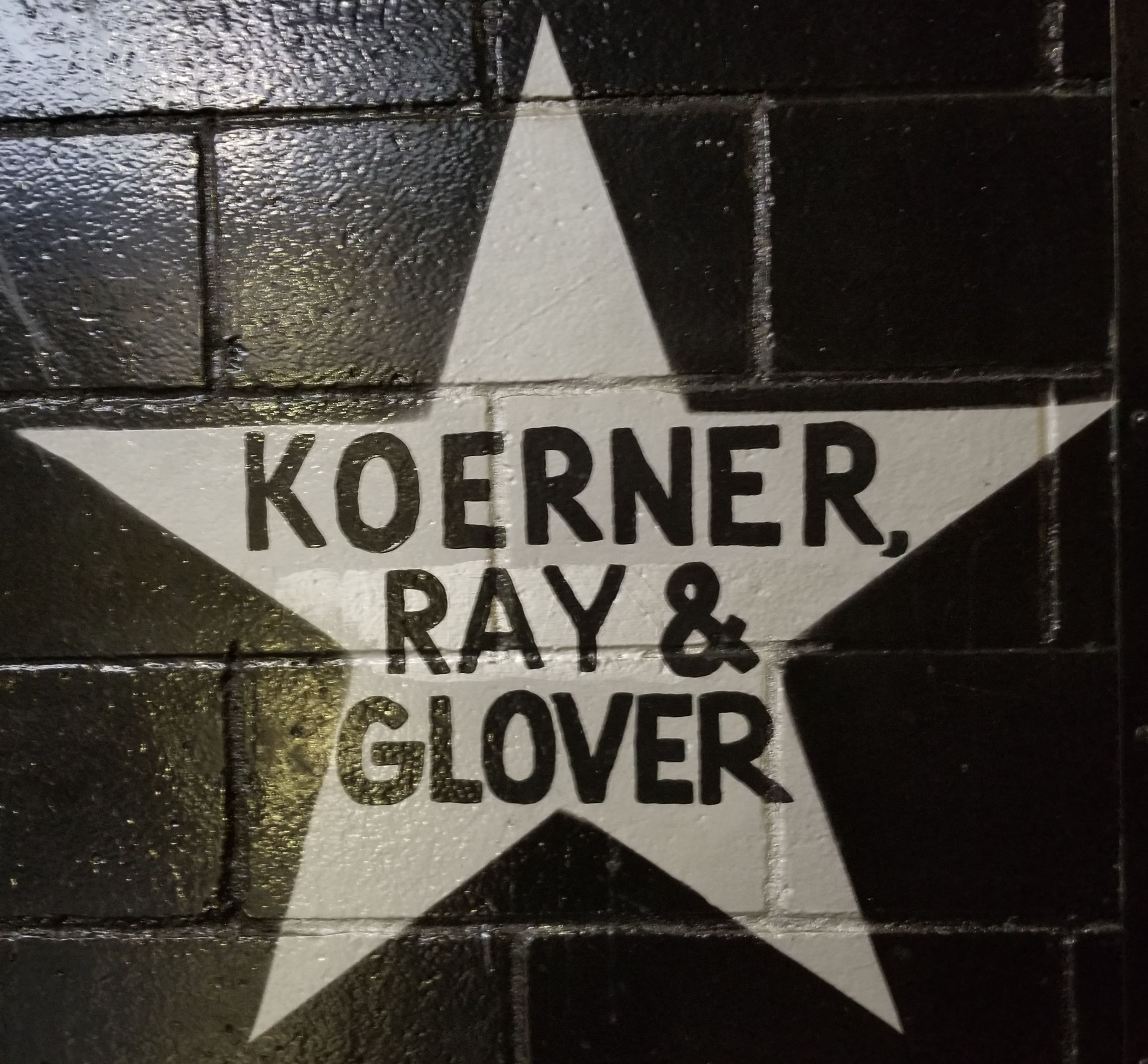 Star representing the musical trio Koerner, Ray & Glover on the outside mural of the Minneapolis nightclub First Avenue